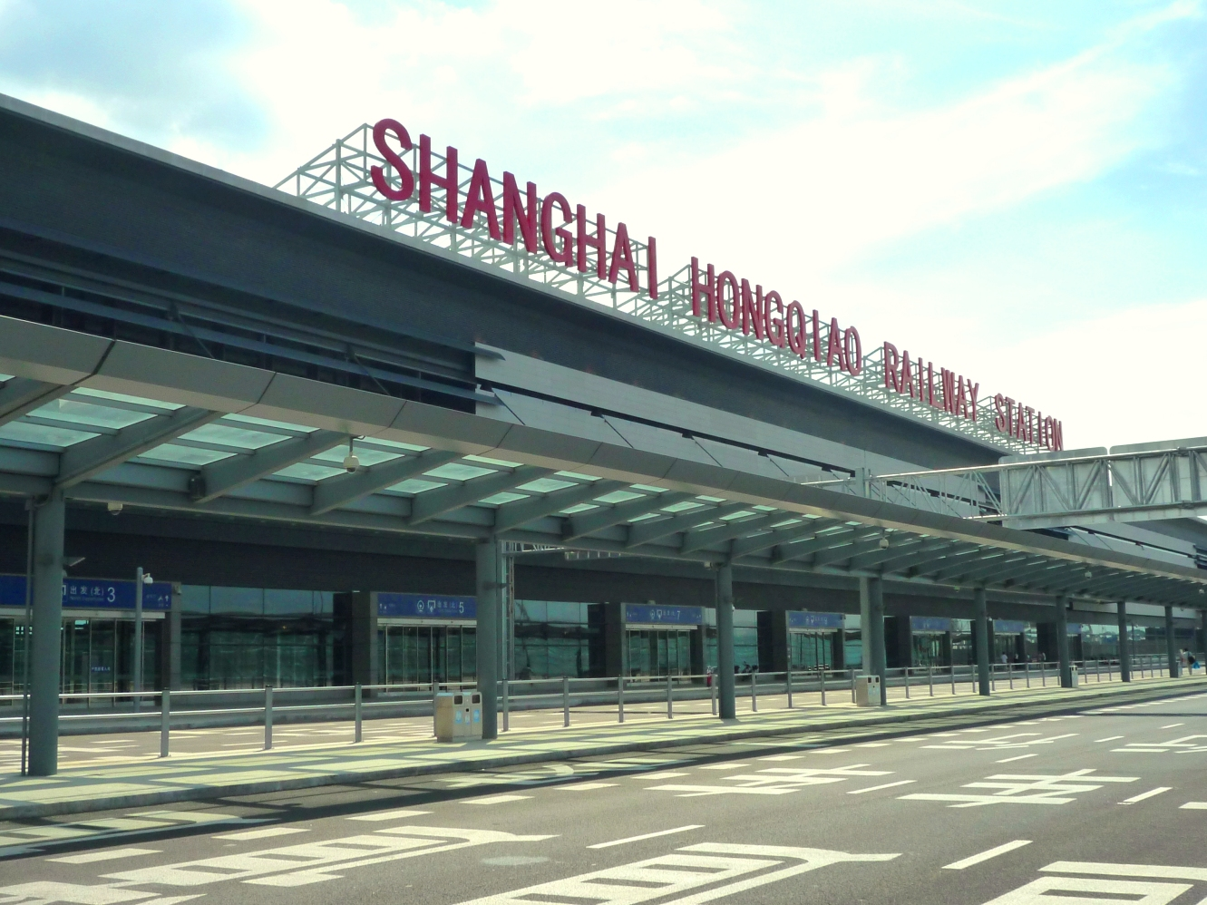 Shanghai Hongqiao Railway Station north side